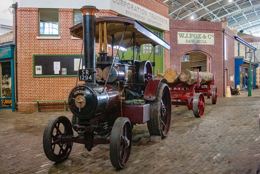 Tasker & Sons "Little Giant" steam traction engine in the Milestones Museum. Built in 1917, works number 1726.